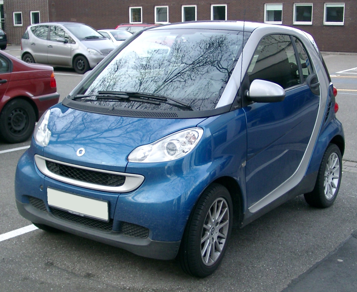 Smart Fortwo